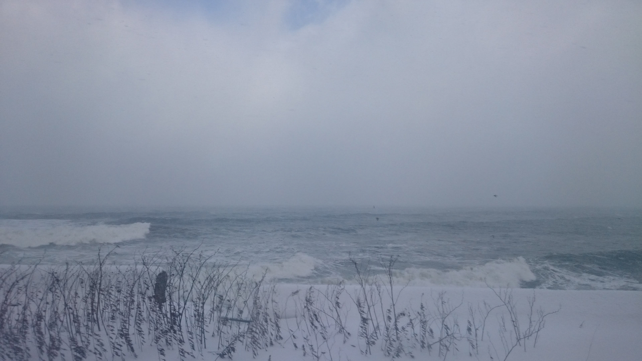 Ishikari Bay